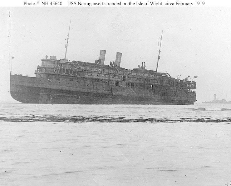 USS Narragansett (SP-2196) aground on the Isle of Wight, circa 1 February 1919. She was stranded while en route to Southampton, England, during post-World War I transport operations. In the distance is the British troopship Empress Queen, which was also aground.